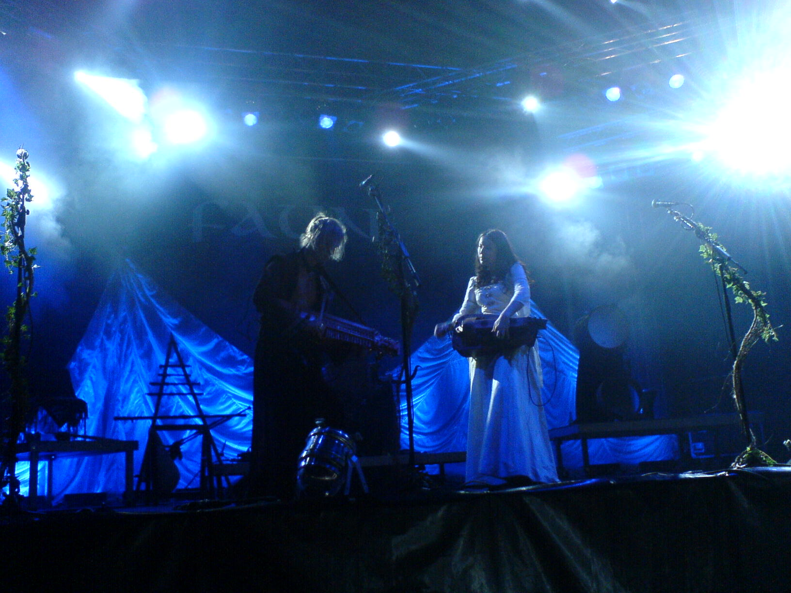 Faun live at WGT 2007 in the Agra